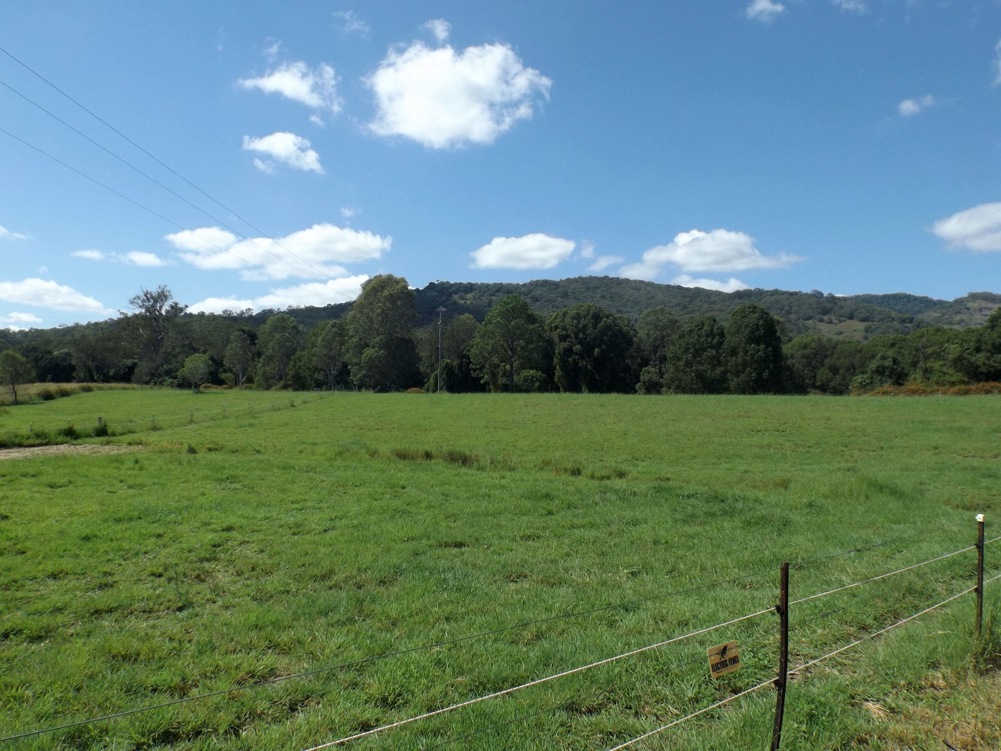 Phot of paddocks along Chardon Bridge Road at Cedar Creek, City of Logan, Queensland, Australia.